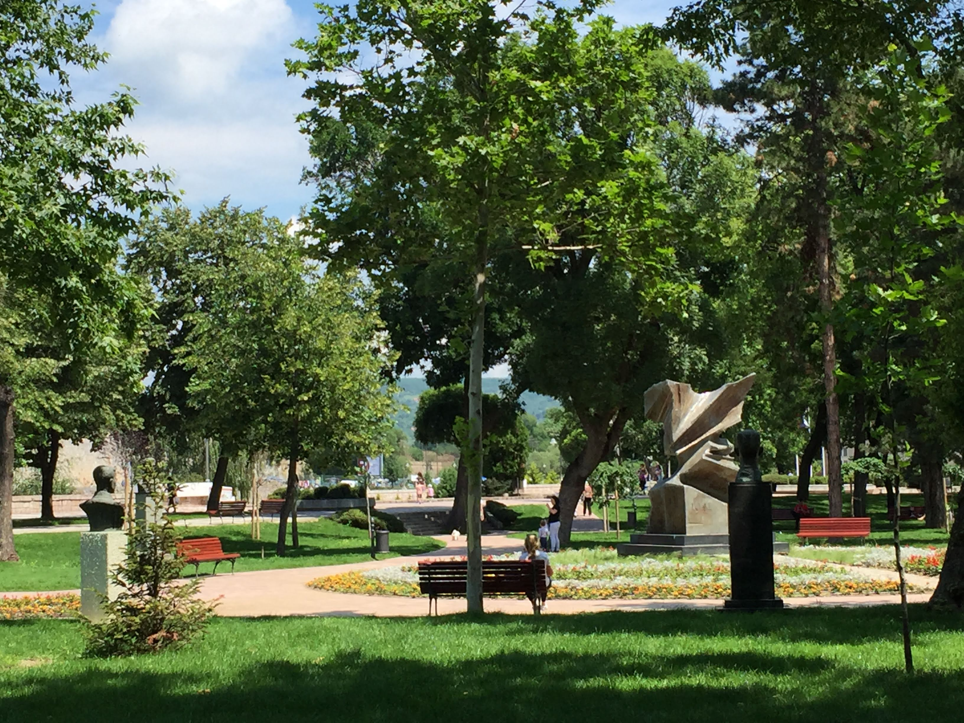 Park of the hero of the National Liberation War in Nis (2020)